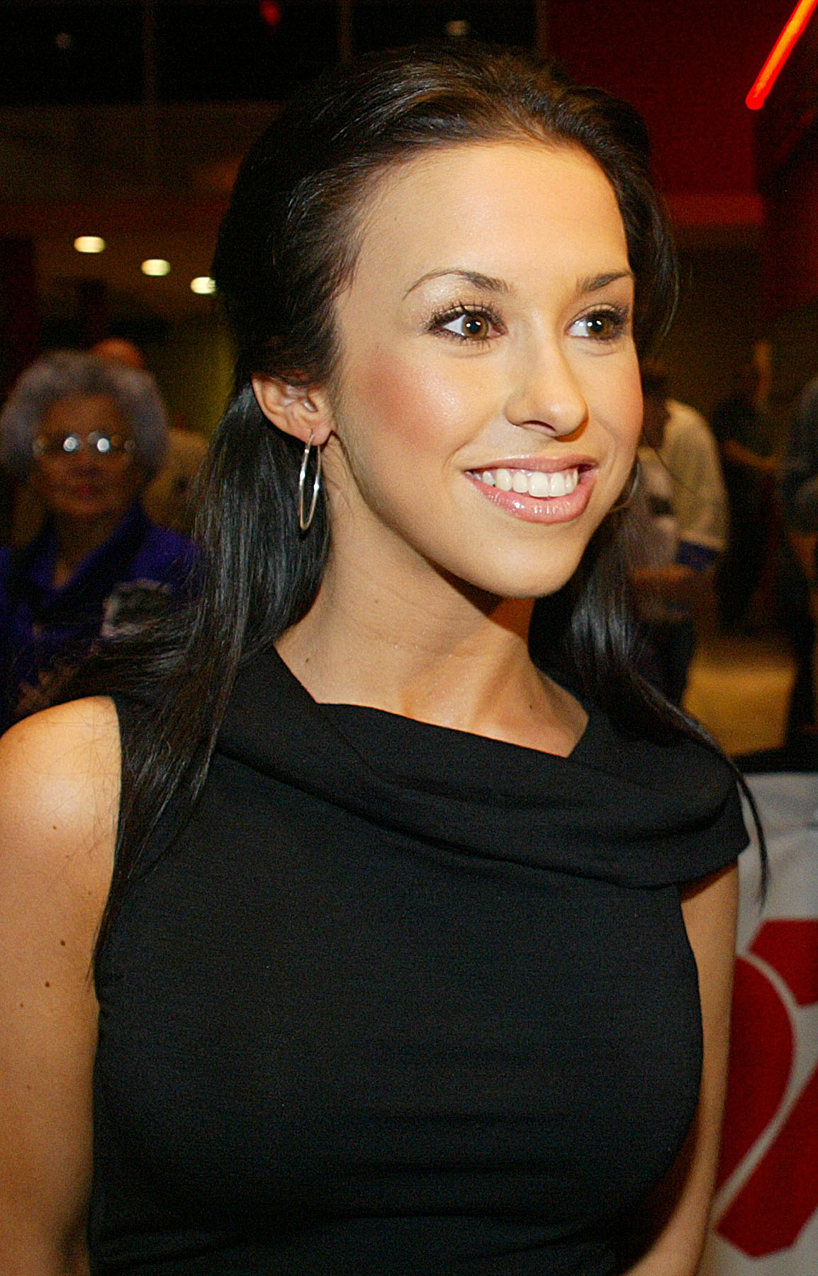 American voice actress Lacey Chabert, former voice actor of Meg Griffin, a Family Guy character.